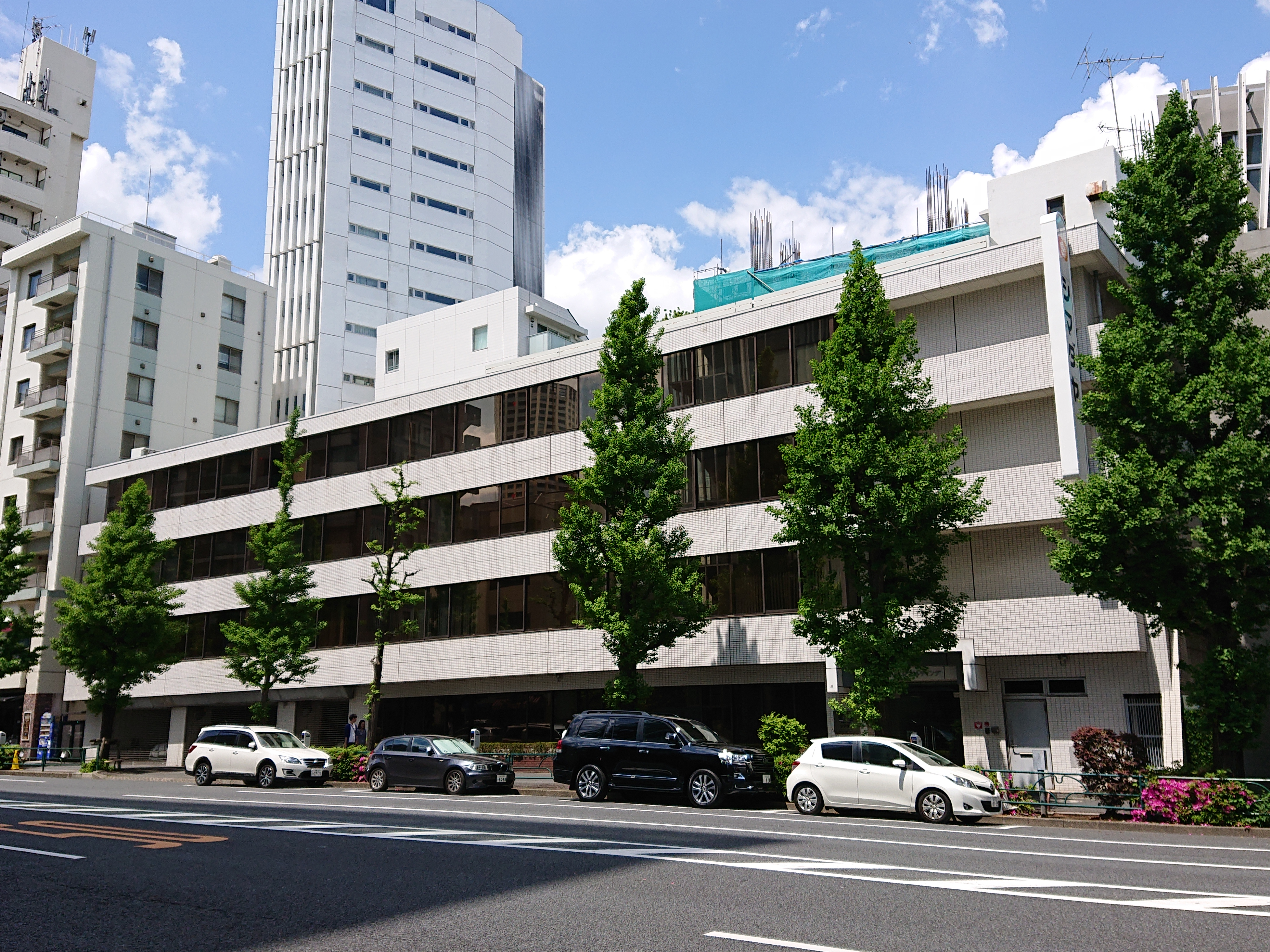 Shimadaya Building, at 1-33-11 Ebisunishi, Shibuya, Tokyo, Japan